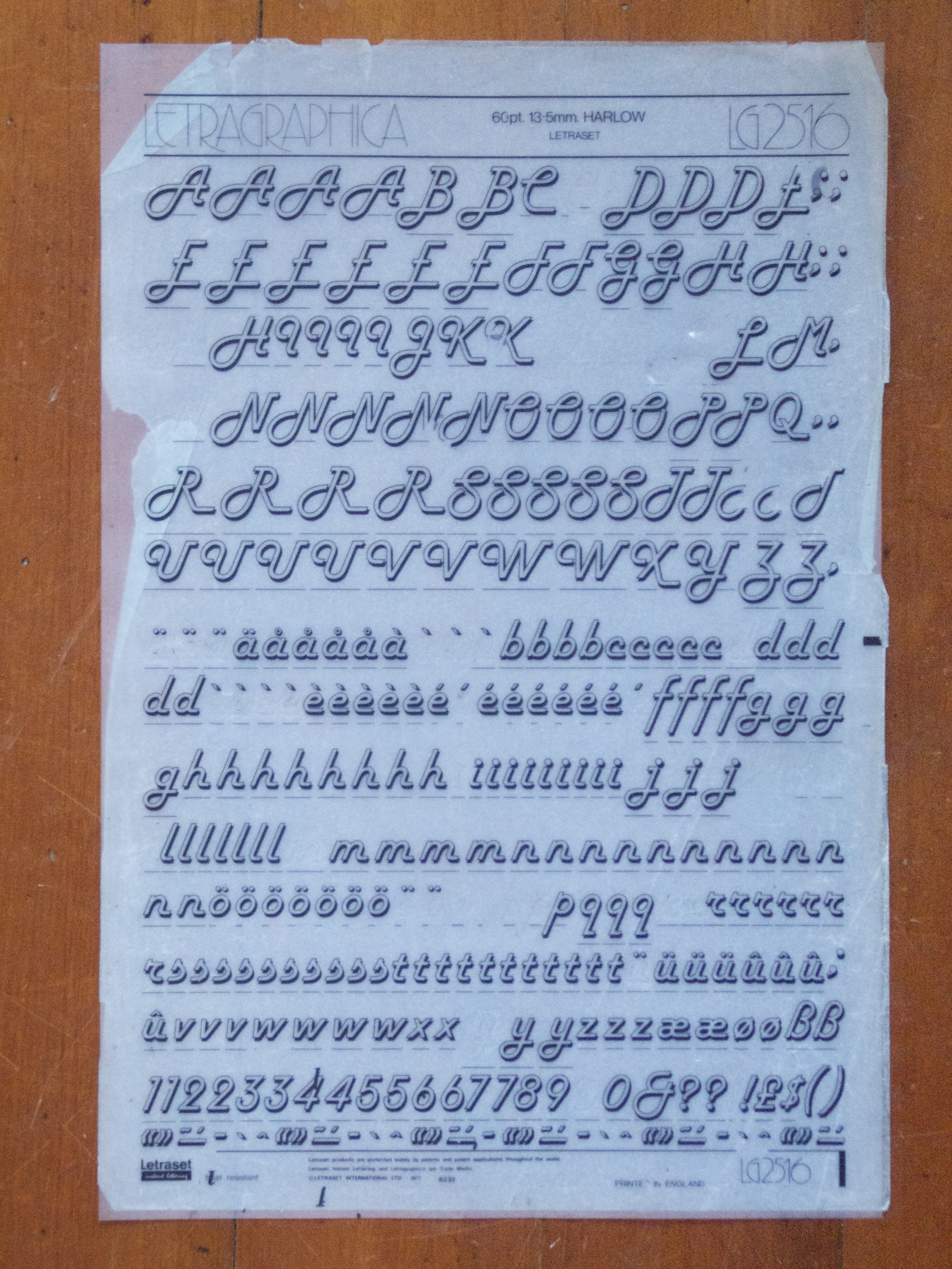 Harlow